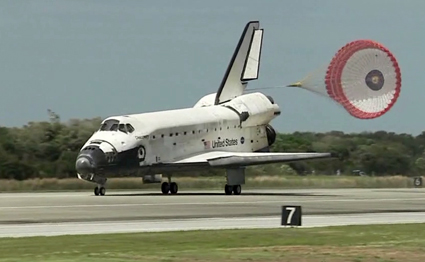 The Space Shuttle Discovery lands for the 39th and final time on the STS-133 mission at the Kennedy Space Center in Florida on Wednesday, March 9, 2011.